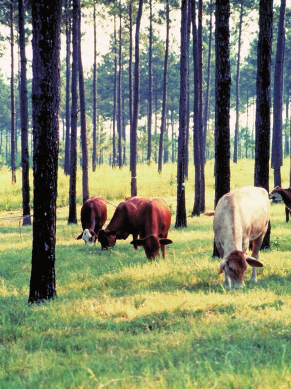 Silvopasture: combining forestry and grazing